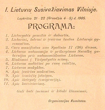 A flyer with agenda prepared for the Great Seimas of Vilnius